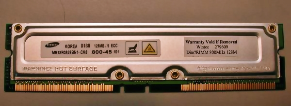 A RIMM Samsung RAM 128 MB